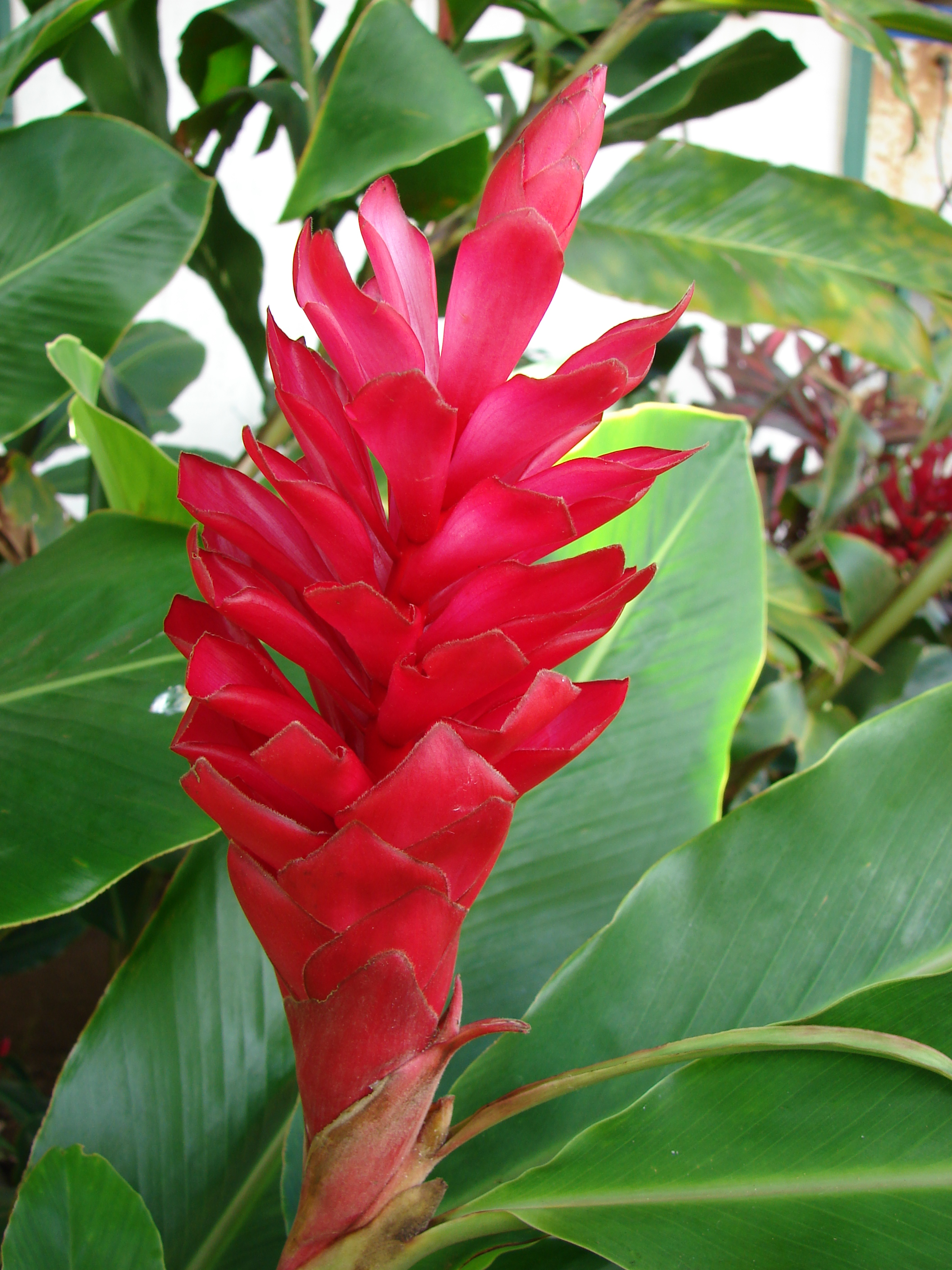 Alpinia purpurata (flowers). Location: Maui, Ulumalu Haiku